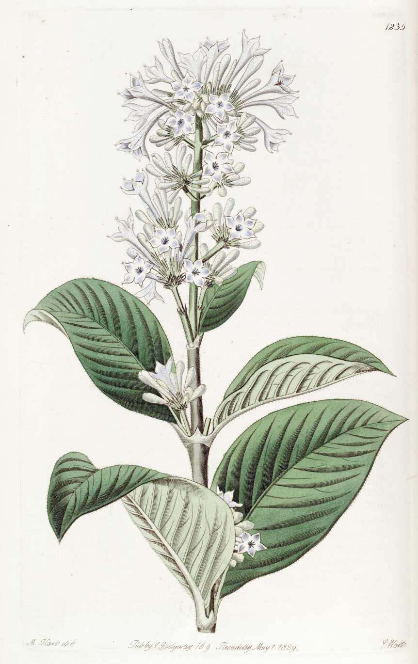 Spermadictyon suaveolens Roxb. [as Spermadictyon azureum Wall.] Edwards’s Botanical Register, vol. 15: t. 1235 (1829) [M. Hart]